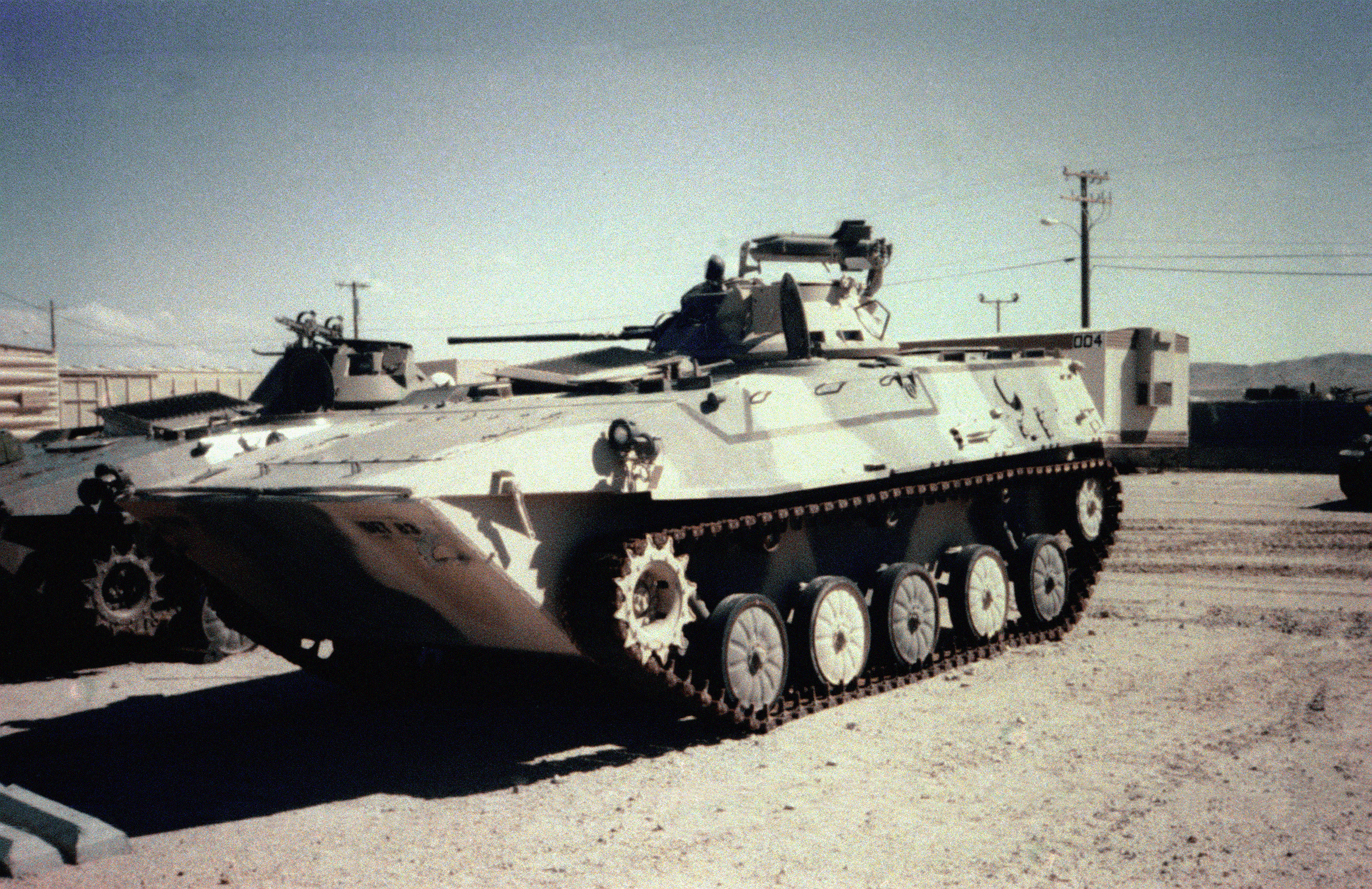 Left front view, on display, Yugoslavian Armored Personnel Carrier, M-80 Mechanized Infantry Combat Vehicle.